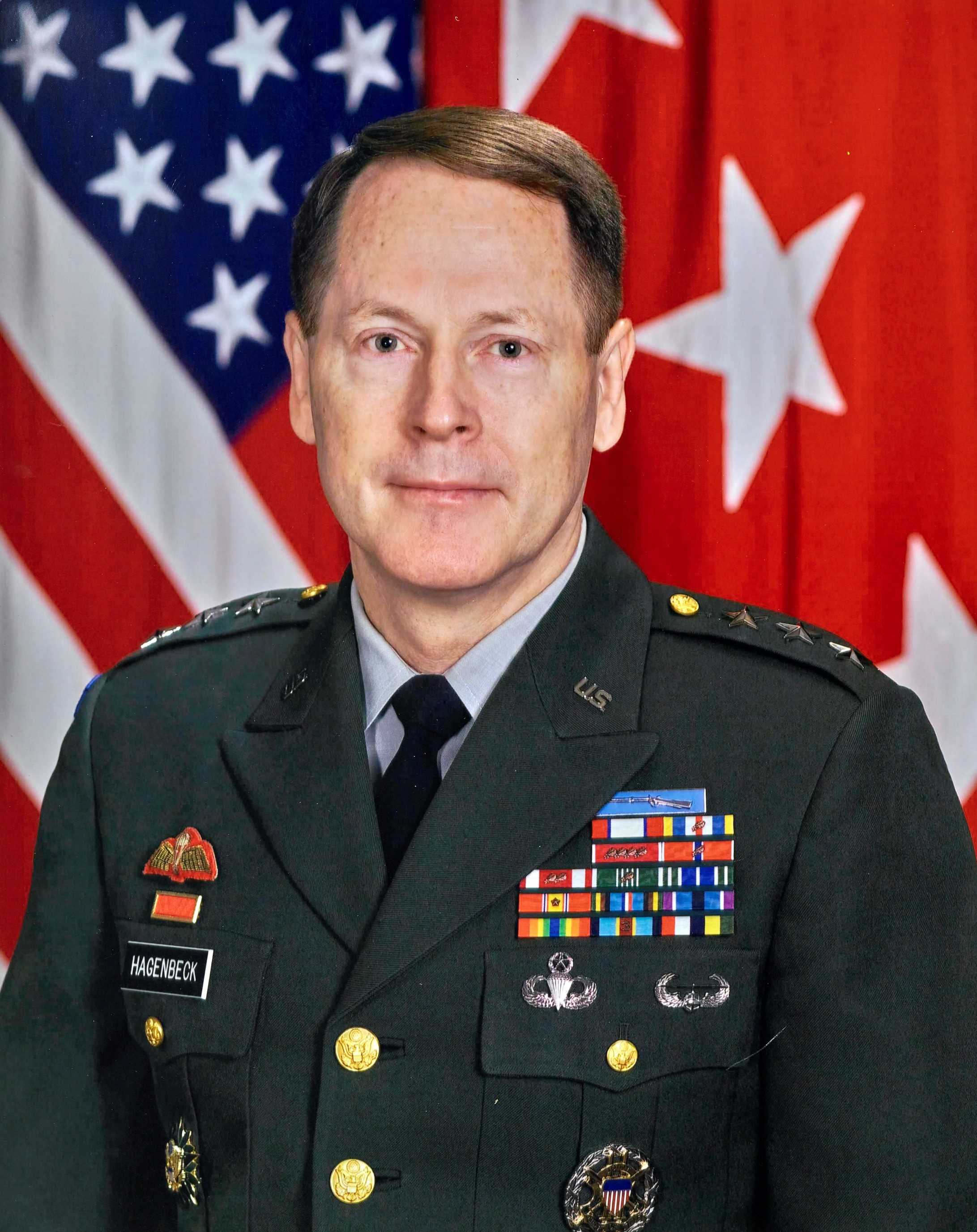 LTG Franklin Hagenback